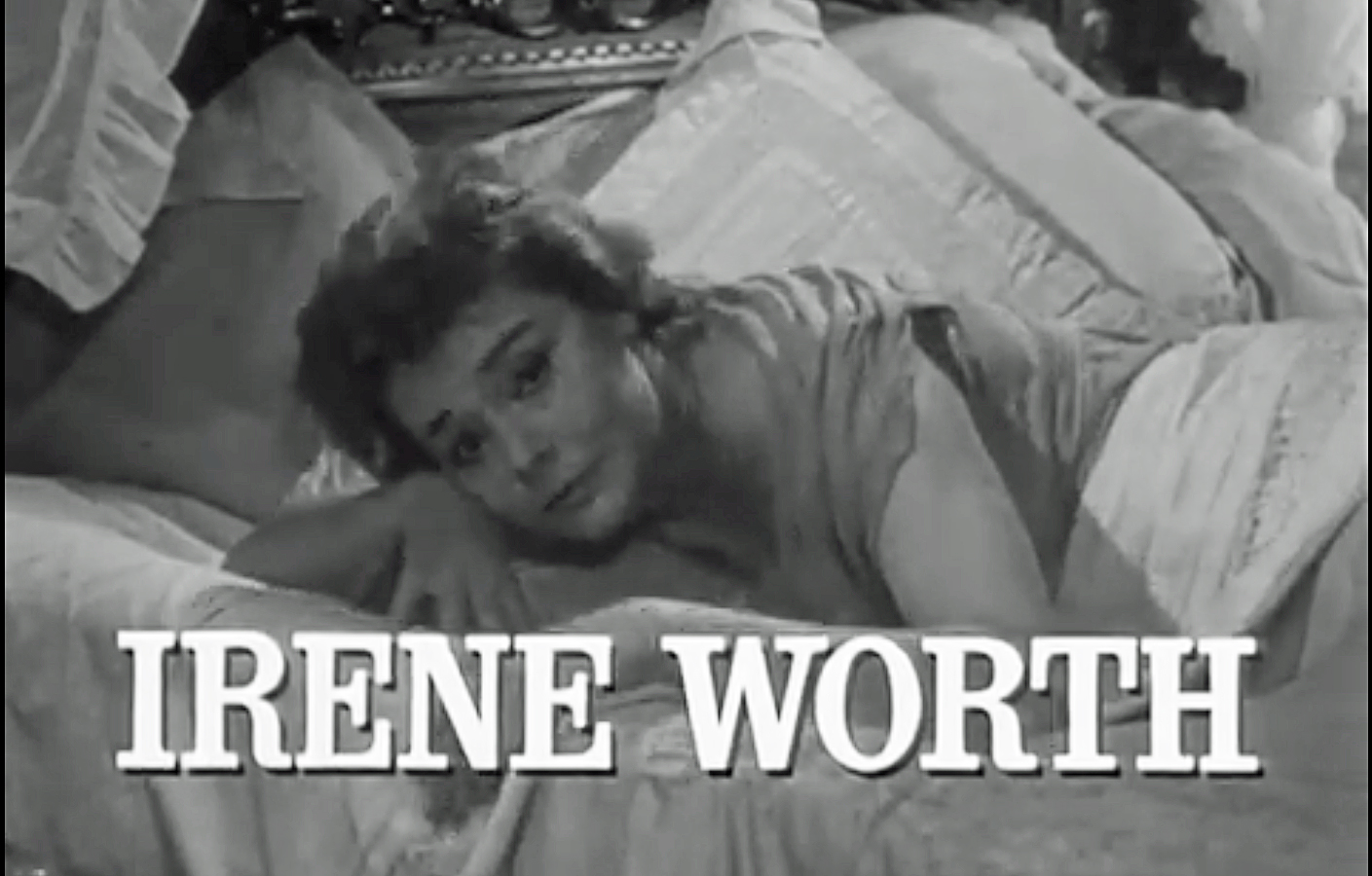 Irene Worth in trailer for "The Scapegoat" (1959)